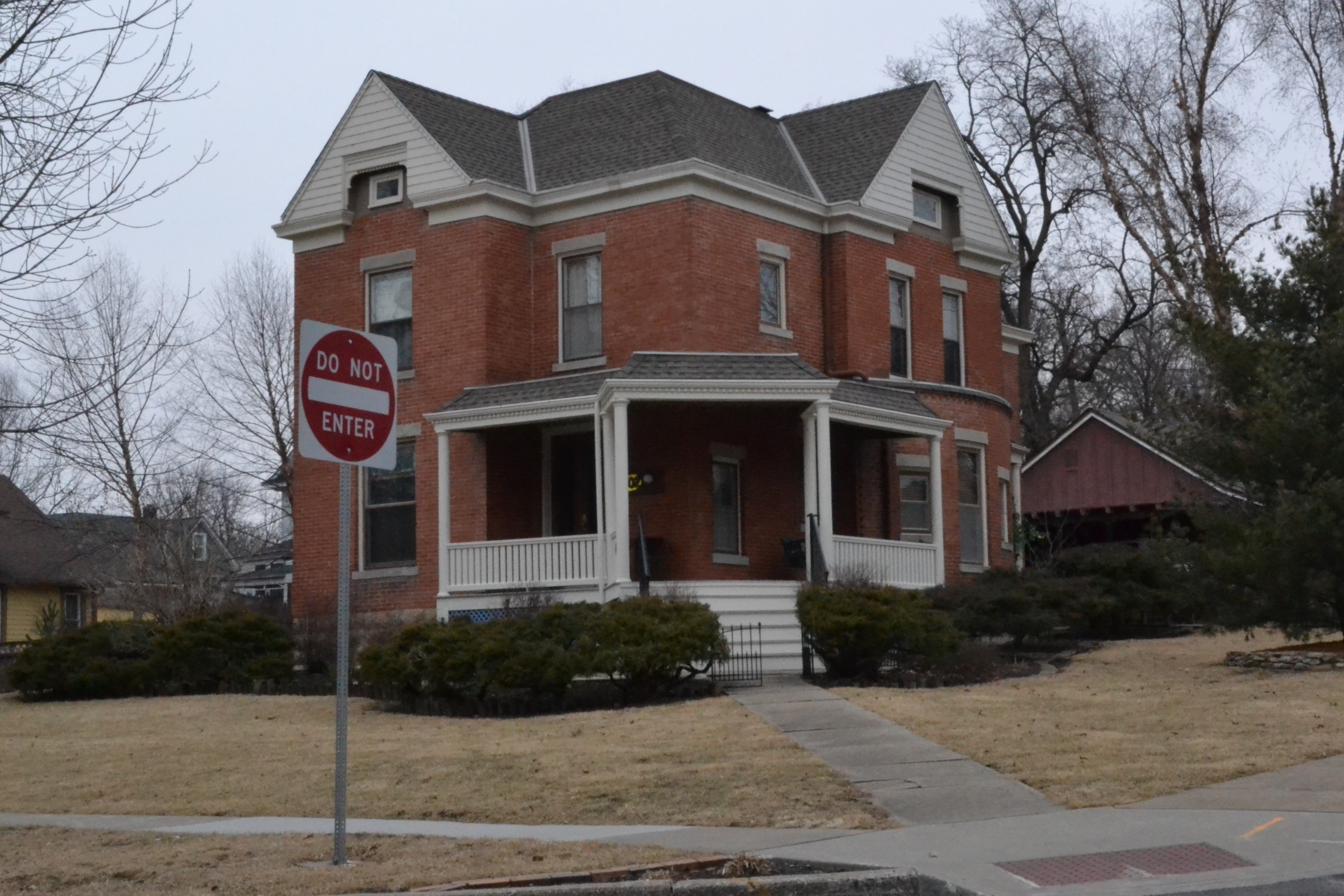 302 West Kansas Street in Liberty, Missouri. A contributing building to the Dougherty-Prospect Heights Historic District